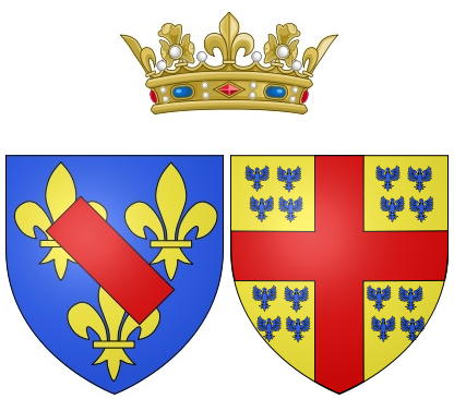 Coat of arms of Charlotte Marguerite de Montmorency as Princess of Condé